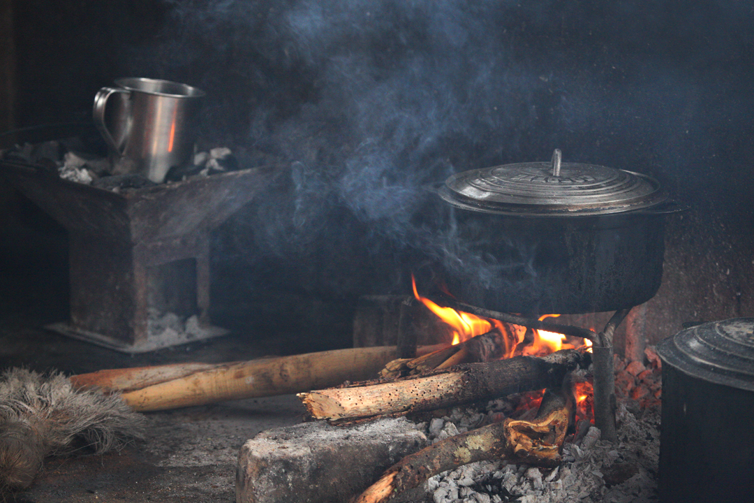 Meal time in southern Madagascar !